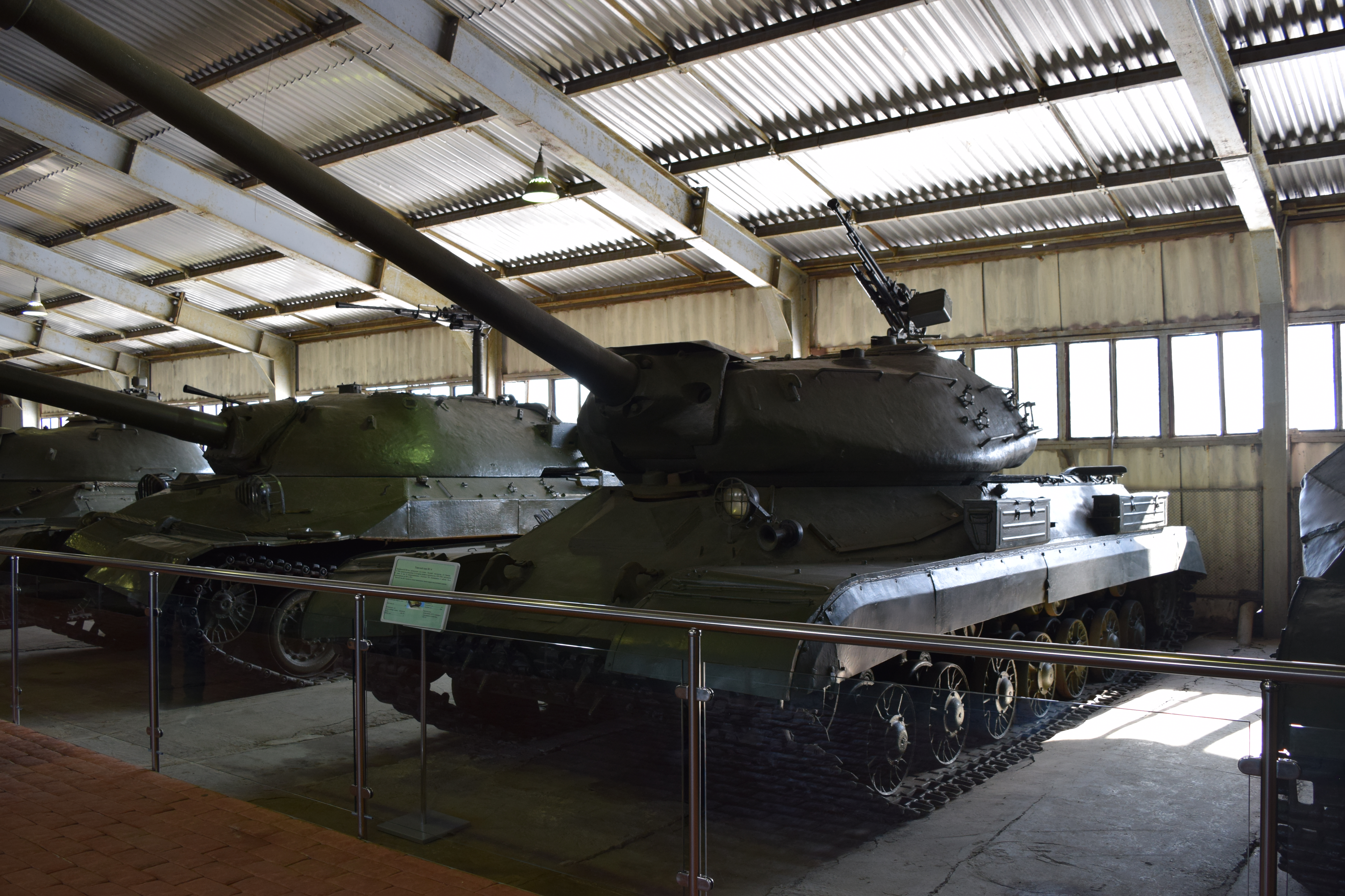 is-4 tank in Kubinka Tank Museum, Russia Moscow